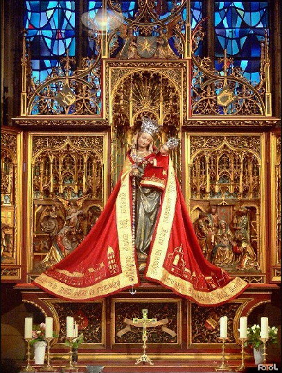 Basilica of Our Lady, Maastricht, the Netherlands. Chapel of Our Lady, Star of the Sea.